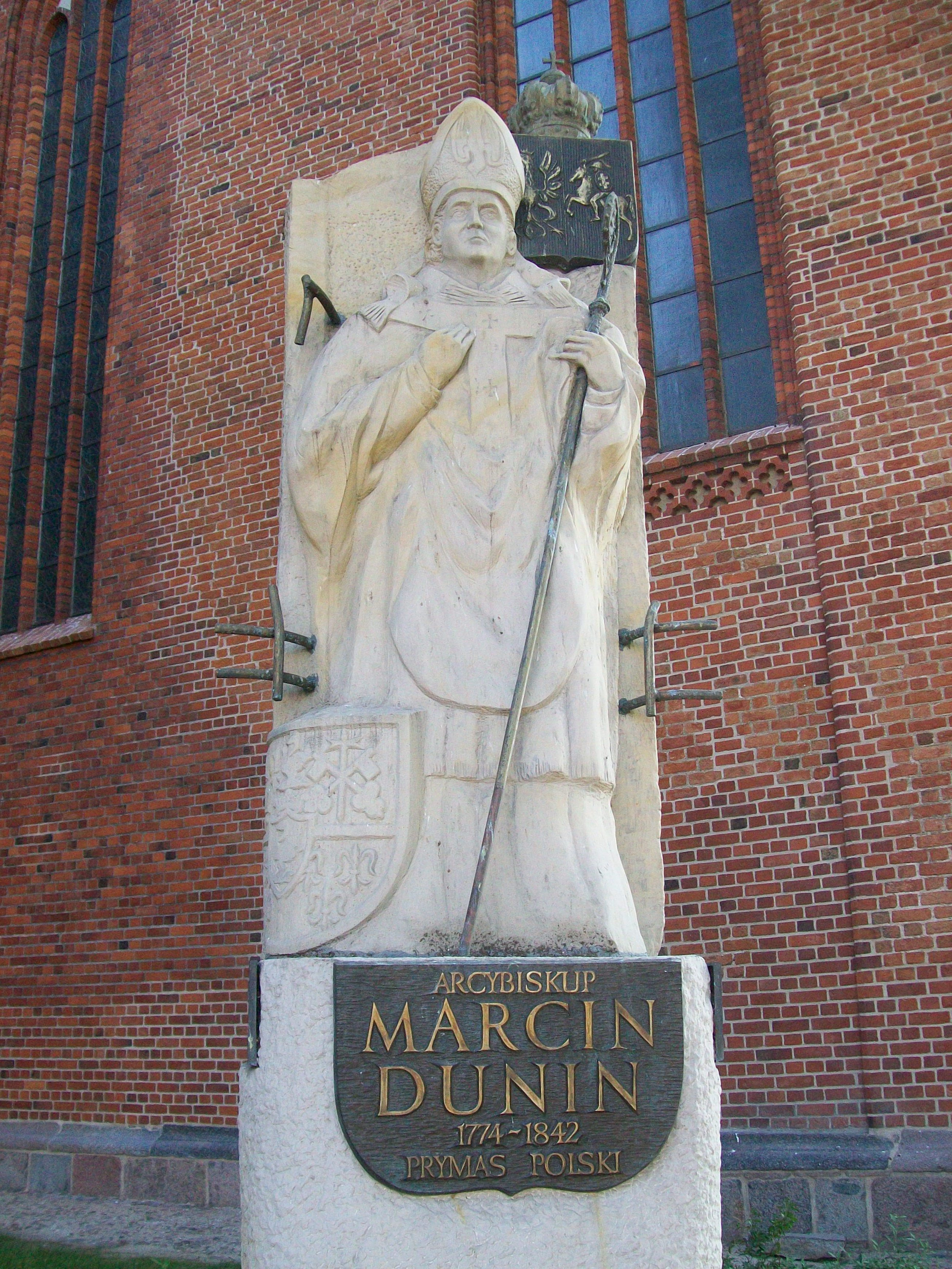 Epitaph of archbishop Marcin Dunin in Kołobrzeg.